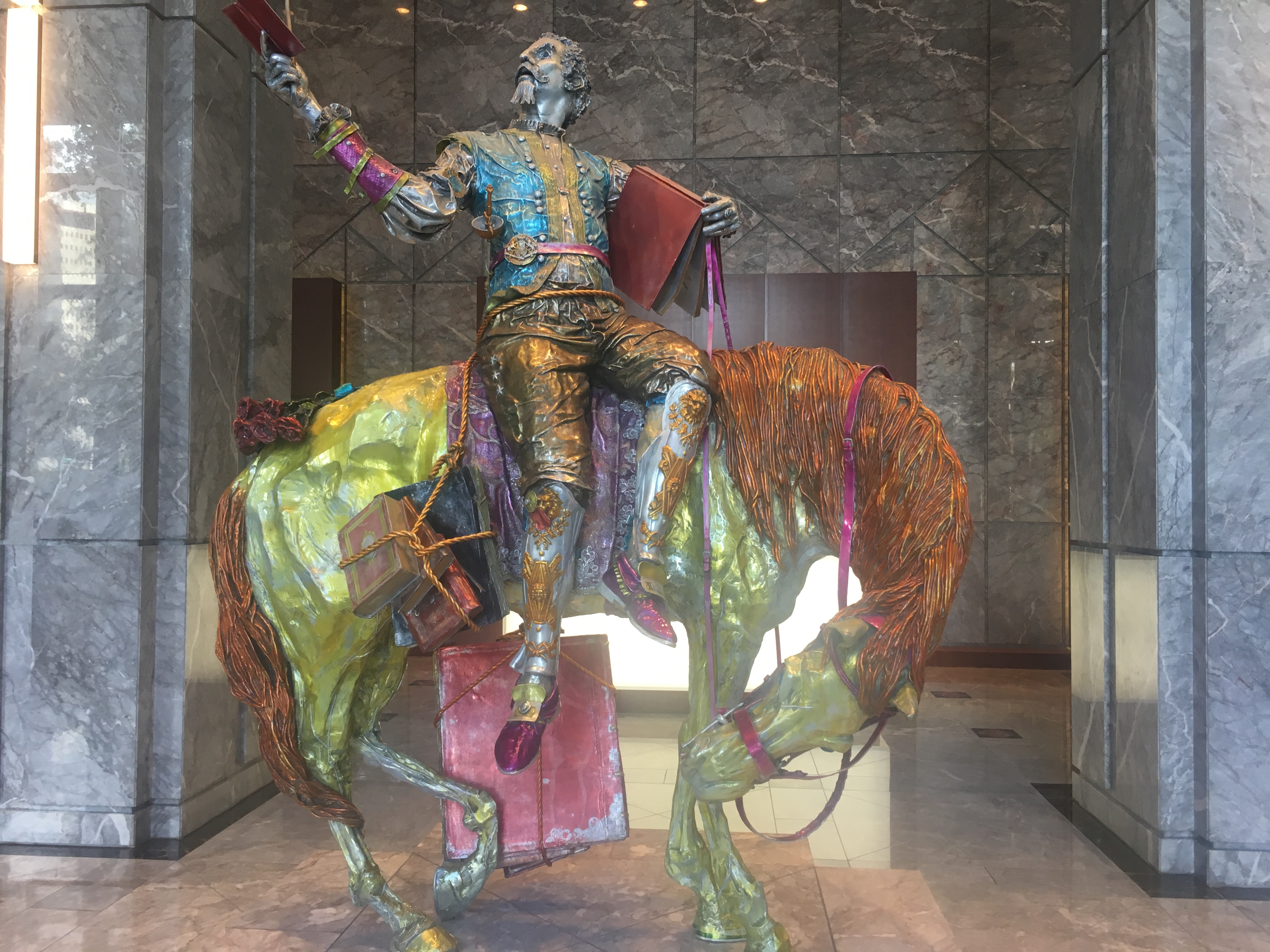 A statue of Don Quixote and Rocinante greet visitors to the SunTrust Financial Centre.